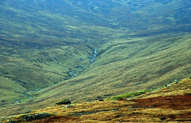 Mourne country near Spelga Dam The slopes of Slieve Loughshannagh and Ott Mountain with a stream in spate after some recent heavy rain.